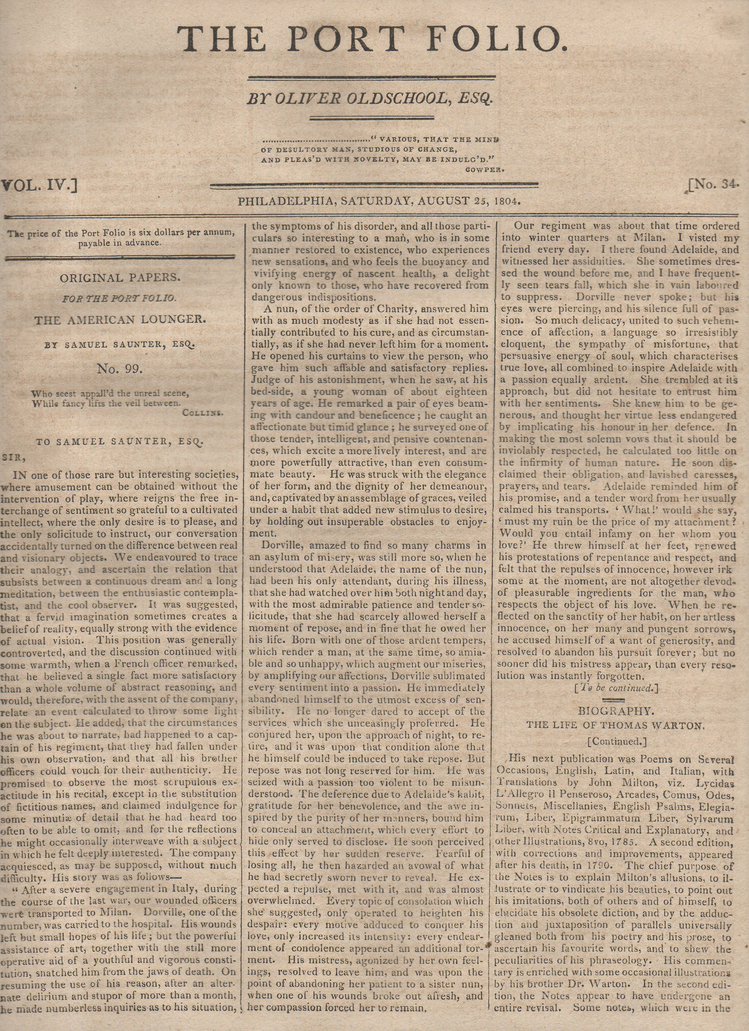 Cover sheet to volume 4, number 34 of the Port Folio, for the week of October 25, 1804.